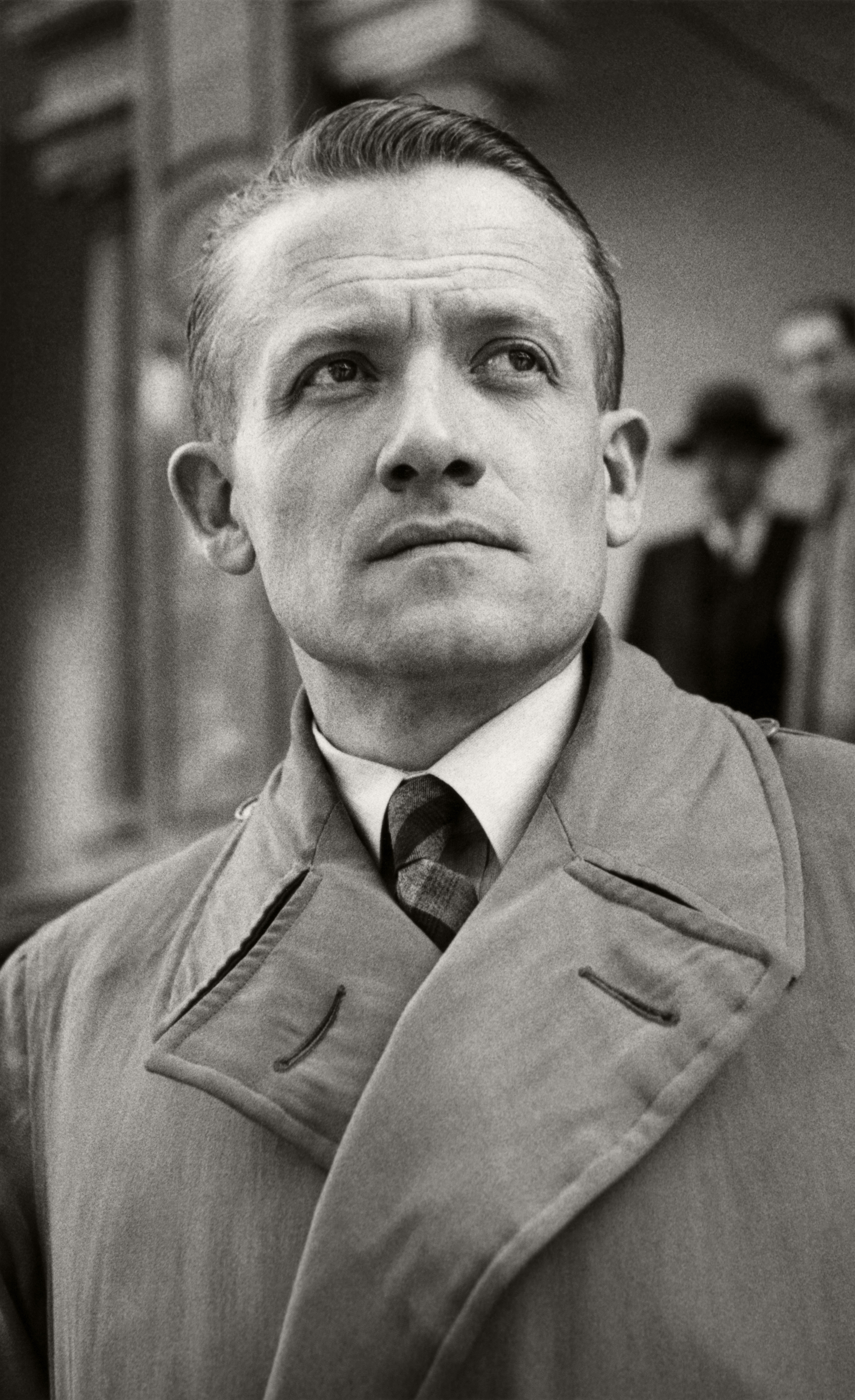 Photograph shows Henri Frenay, a member of the French Committee of National Liberation during World War II.